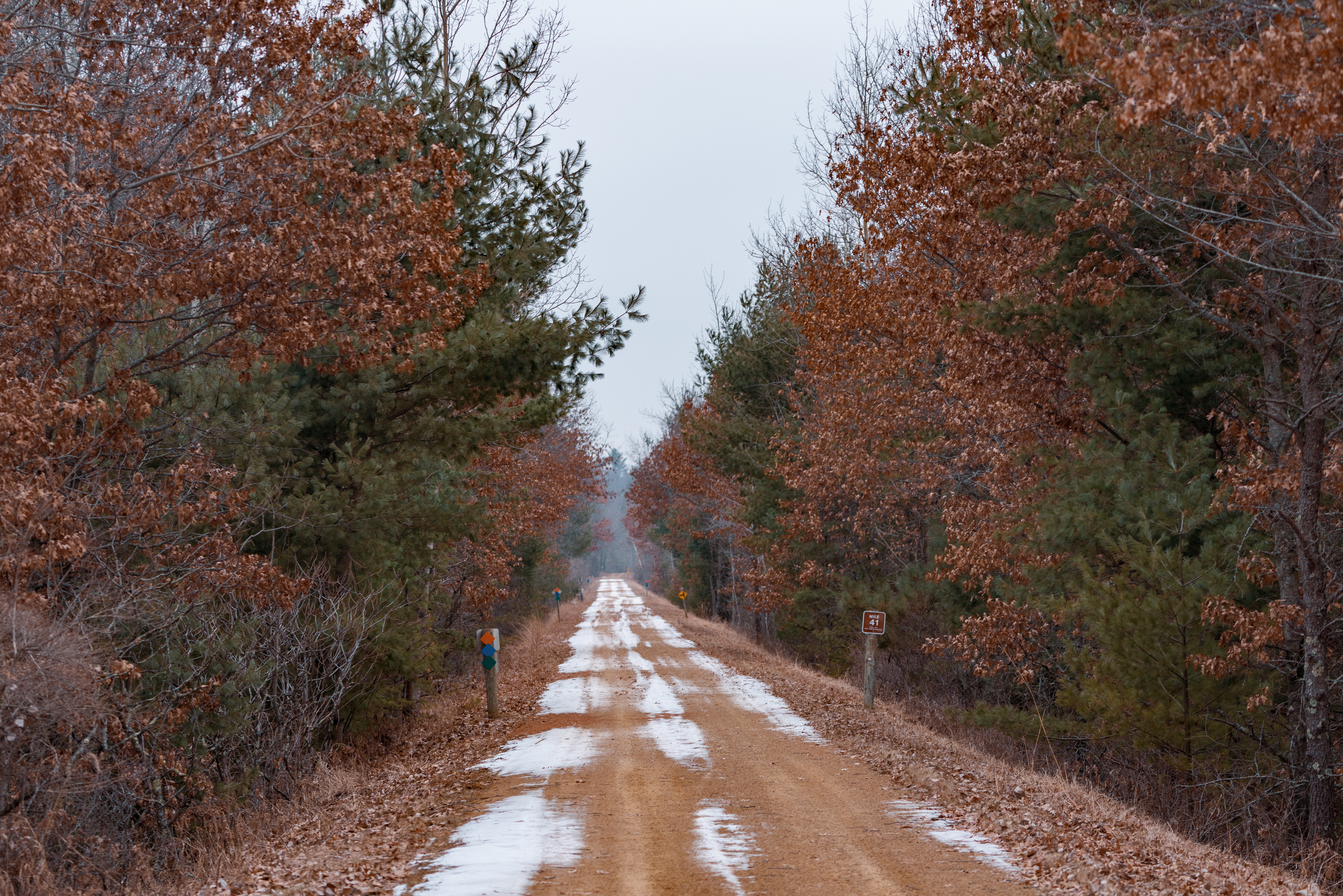 The Gandy Dancer State Trail passes by Yellow Lake, near Webster, Wisconsin, on a snowy morning in December 2018.